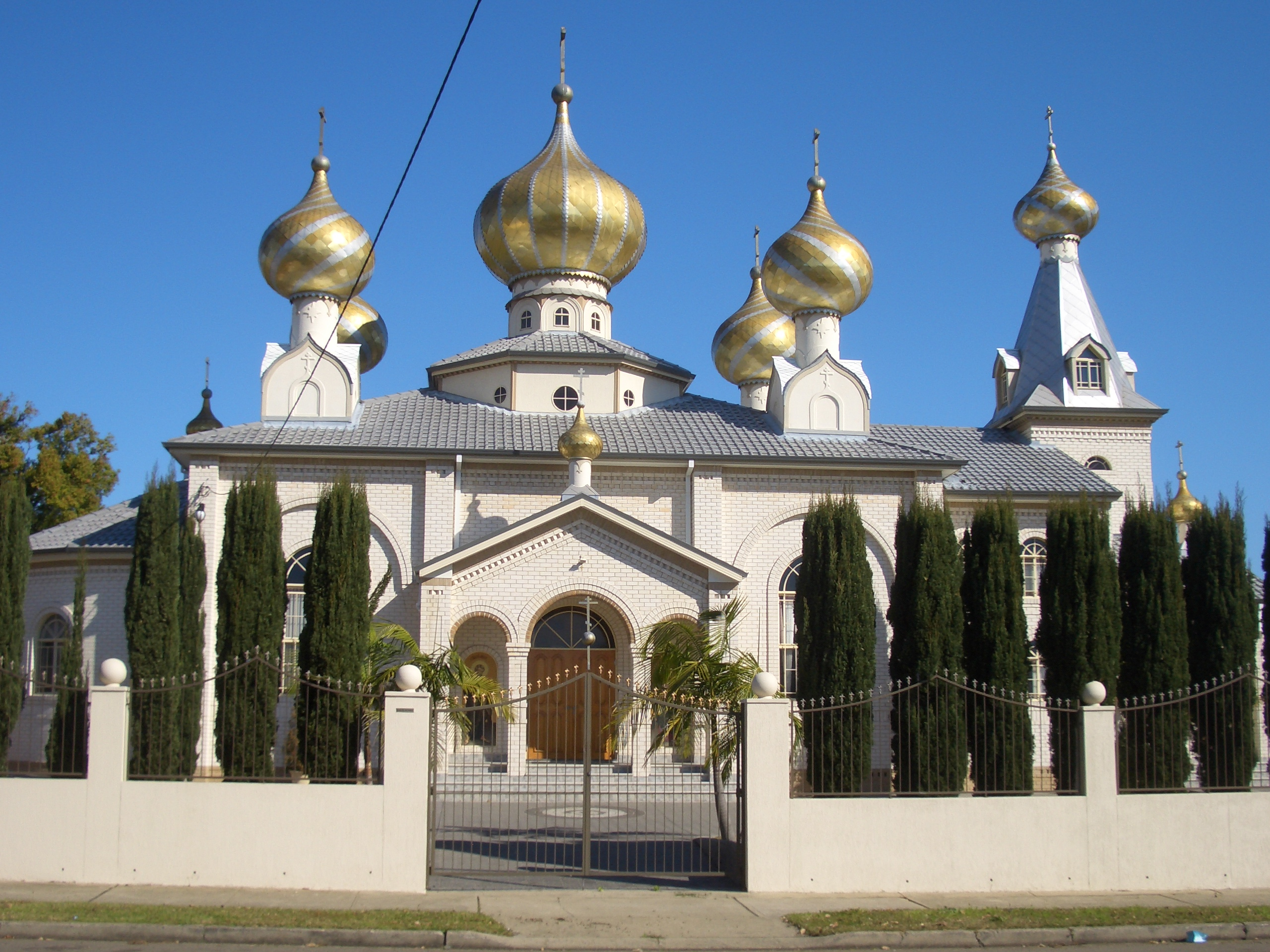 Russian Old Orthodox Church of the Holy Annunciation - Assumption, Lidcombe, Sydney